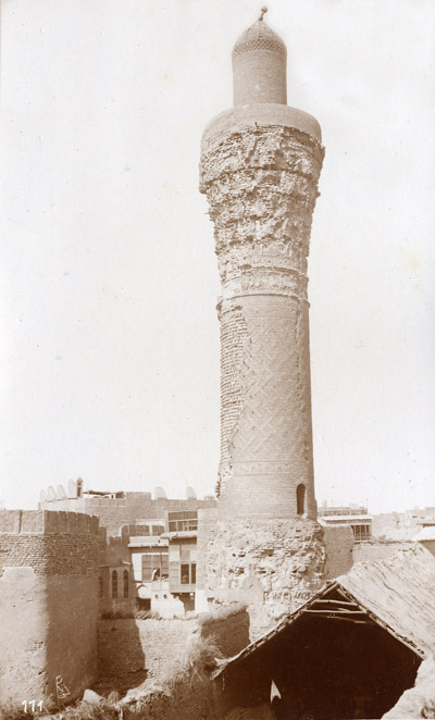 1911, of Suq al-Ghazal (The Yarn Bazaar) Minaret in Baghdad-Mesopotamia. This is the oldest minaret in Baghdad. It belonged to the Caliph Mosque built by Caliph Muktafi 901-907 A.D. The mosque was destroyed by Hulagu in 1258 A.D. during the sack of the city of the Caliphs. The current minaret was built by Hulagu's son Abagha [1264-1281 A.D.]